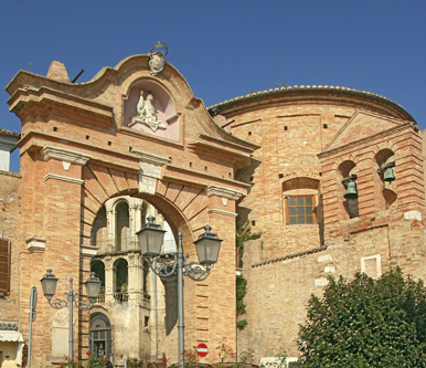 This is a photograph of Porta San Francesco in the town of Penne which I took in 2005.